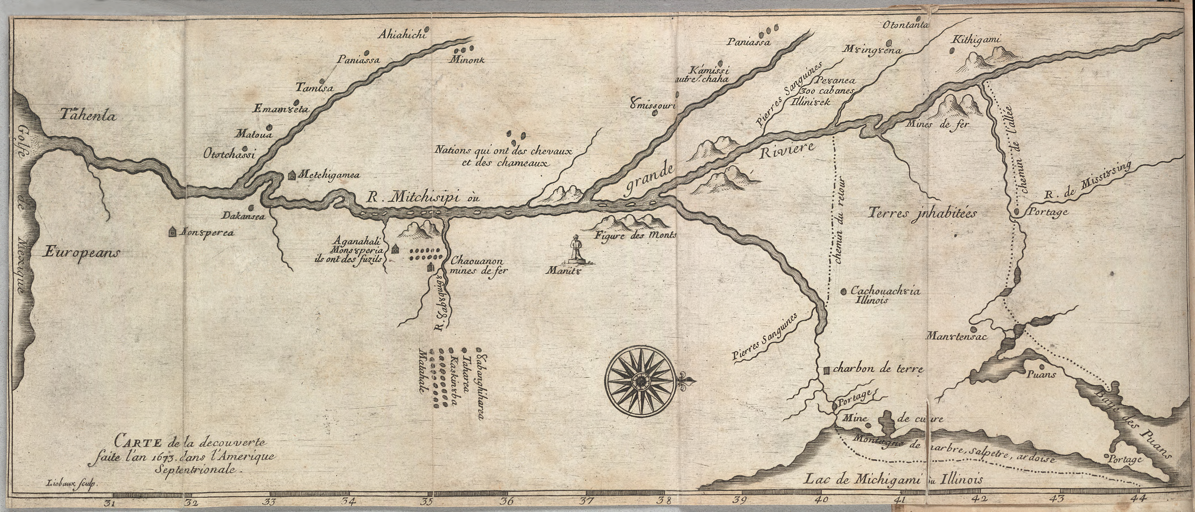 Map of the discovery made in the year 1673 in North America by Jacques Marquette